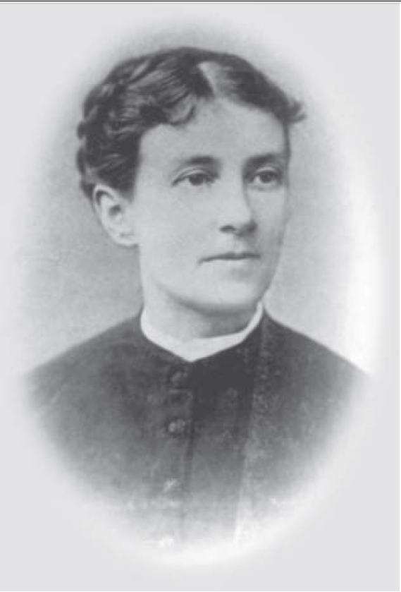 Kateryna Semenivna Bekker (Myklukha)